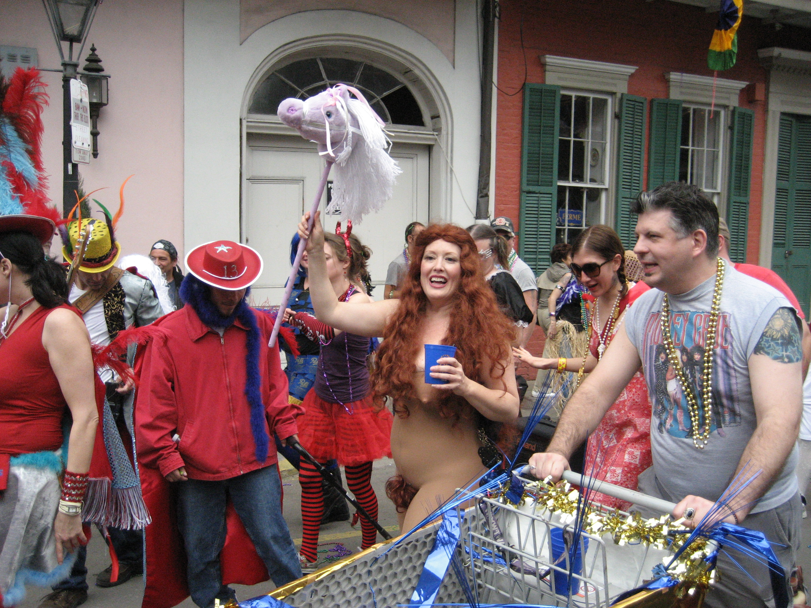 New Orleans Mardi Gras: Small parading group dancing in the street with band in the French Quarter; Lady Godiva costumer.